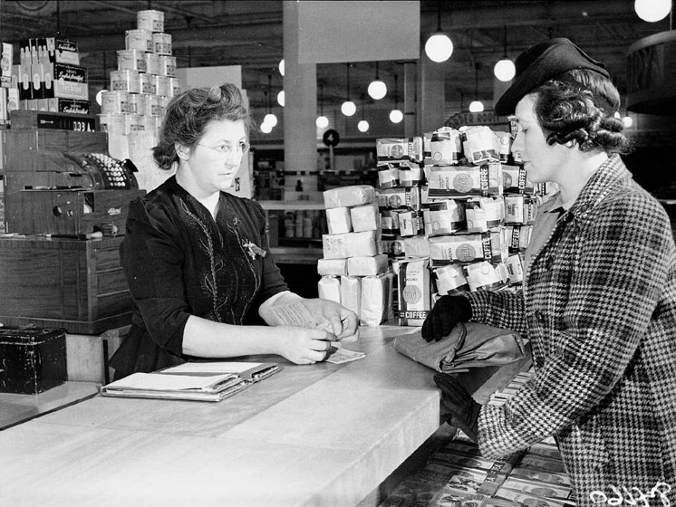 Buying food at the Eaton's department store using ration coupons. Toronto, Canada.